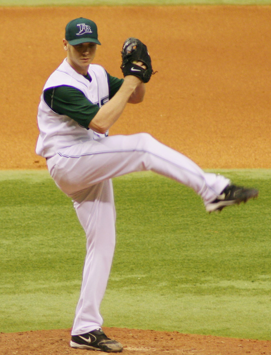 Photo by Googie Man 23:16, 1 May 2006 . . Googie man . . 535×700 (164,139 bytes)